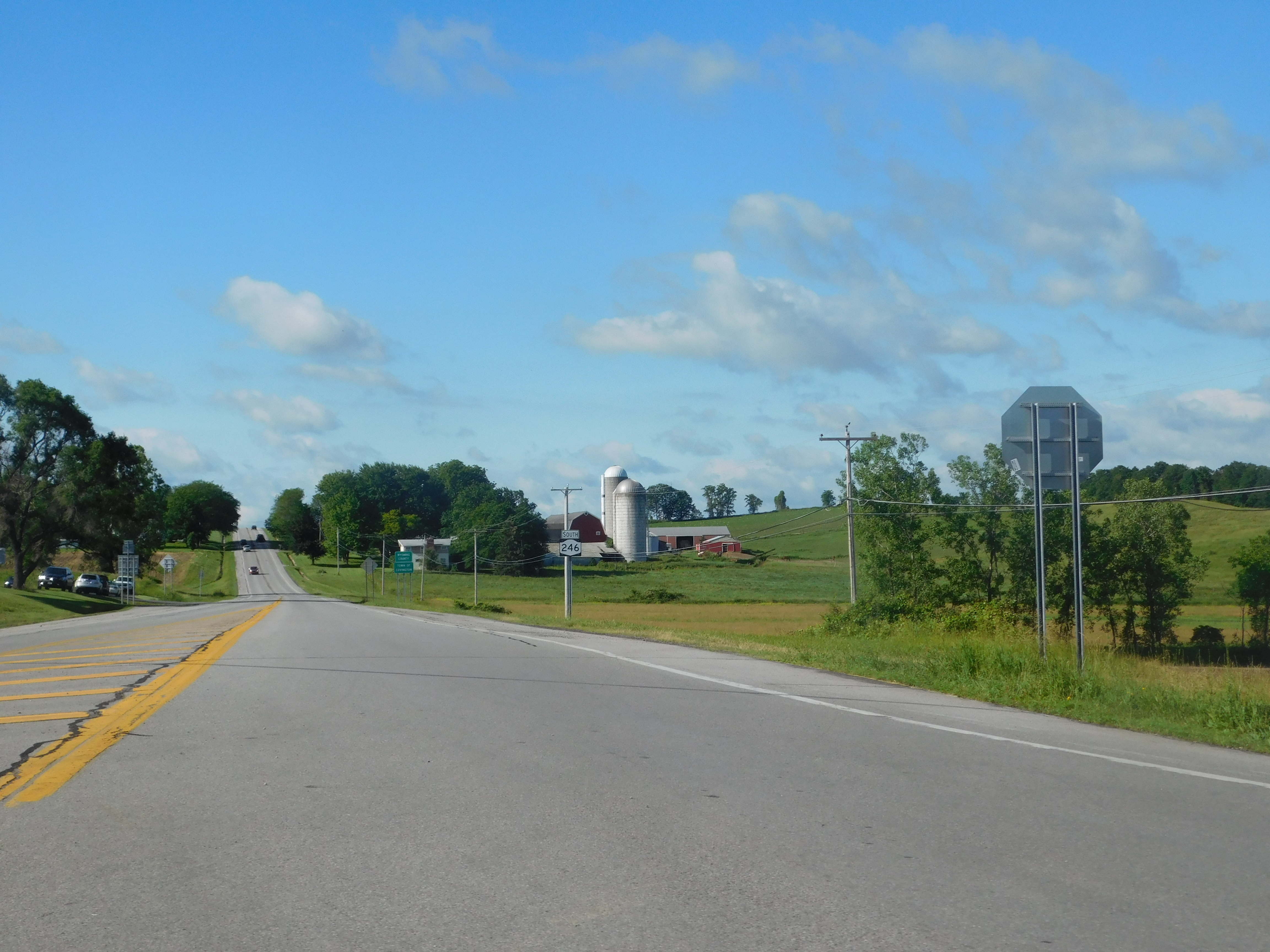 NY 246 from NY 63 in Pavilion, New York.